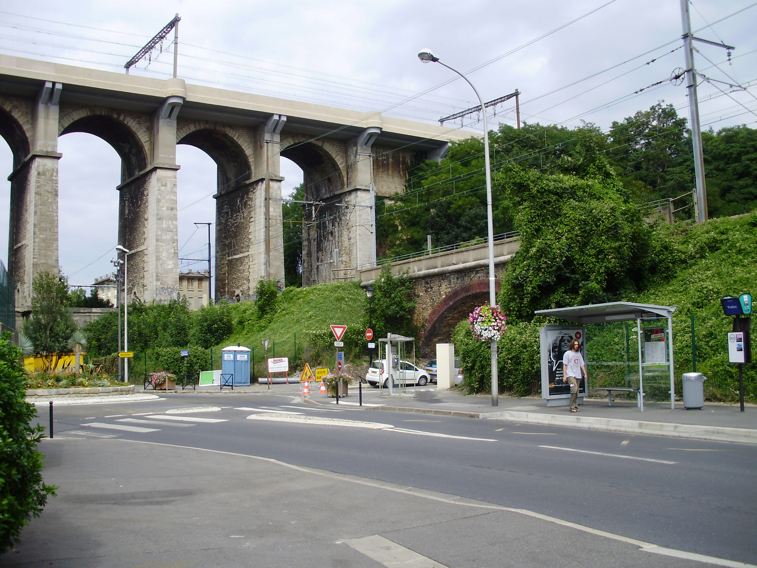 Railway bridge of Meudon, Hauts-de-Seine, France, at the crossroads avenue Jean-Jaurès/rue du docteur Vuillième (on the right : Invalides line - RER C)